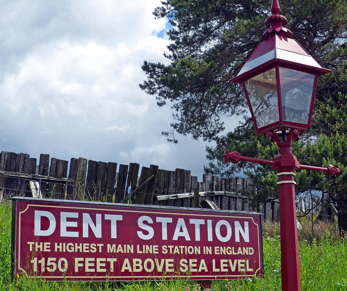 Dent railway station altitude sign and snow fence